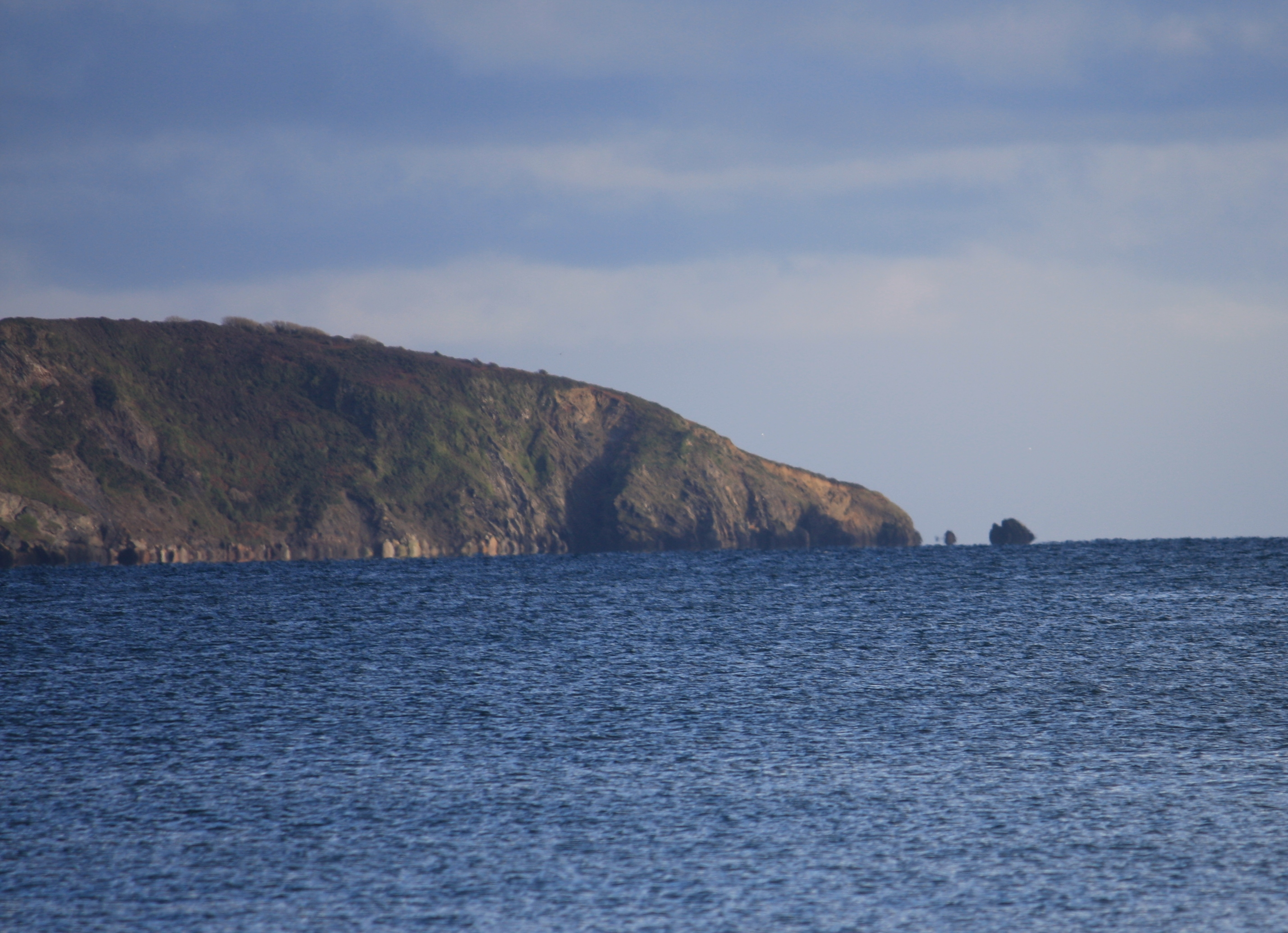 Gribben Head viewed from Charlestown, Cornwall - UK, November 10 2012.